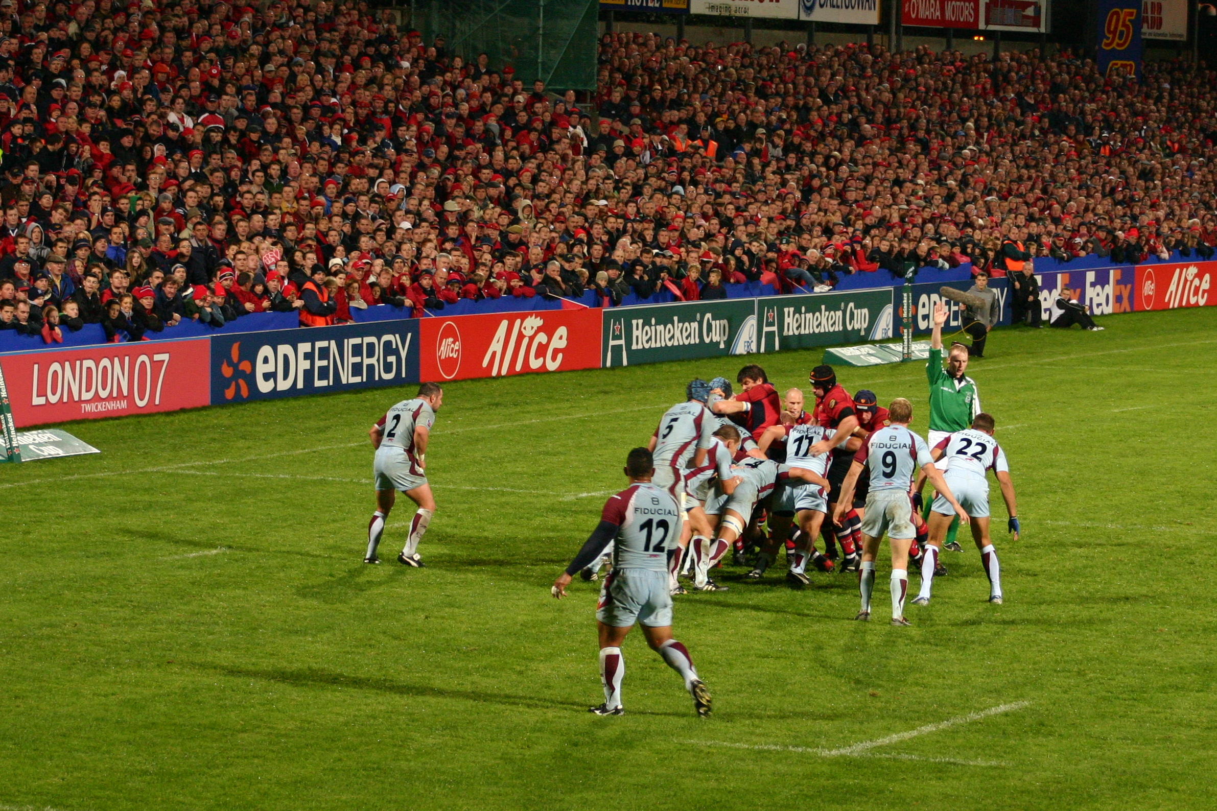 Munster/Bourgoin rugby game at Thomond Park